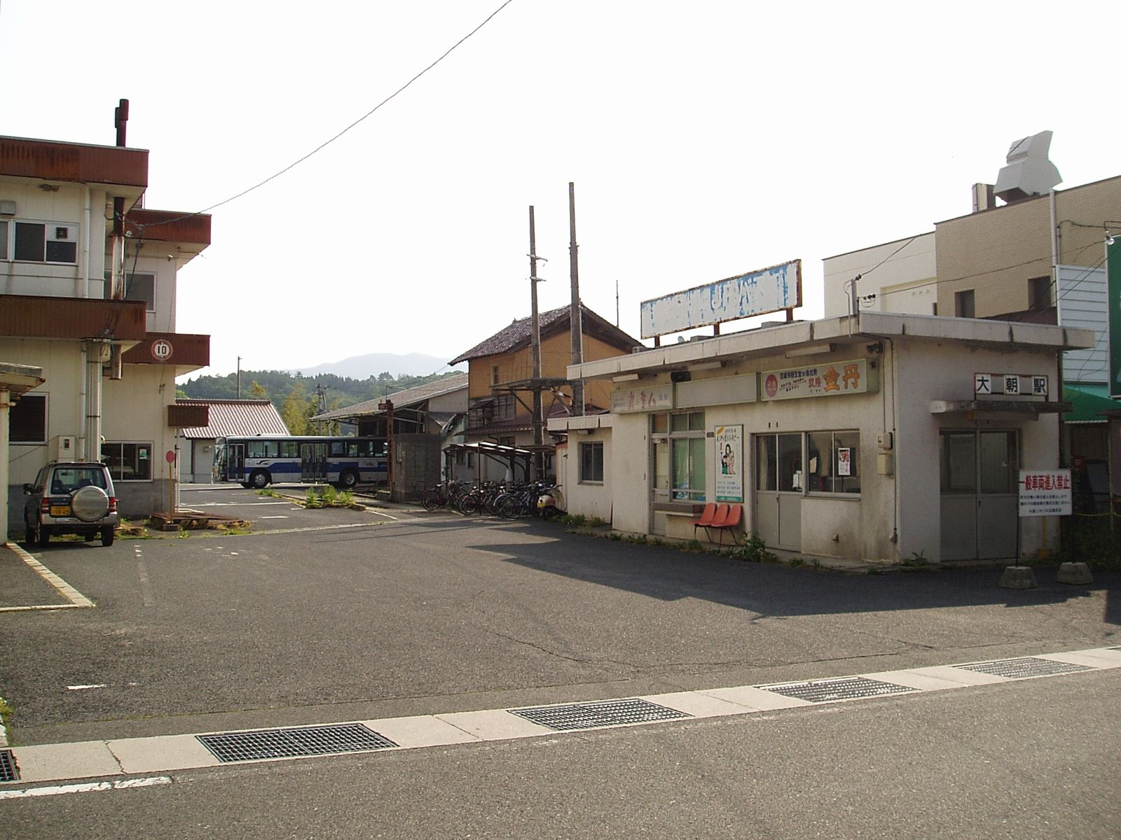 Chugoku JR Bus Oasa Dept.